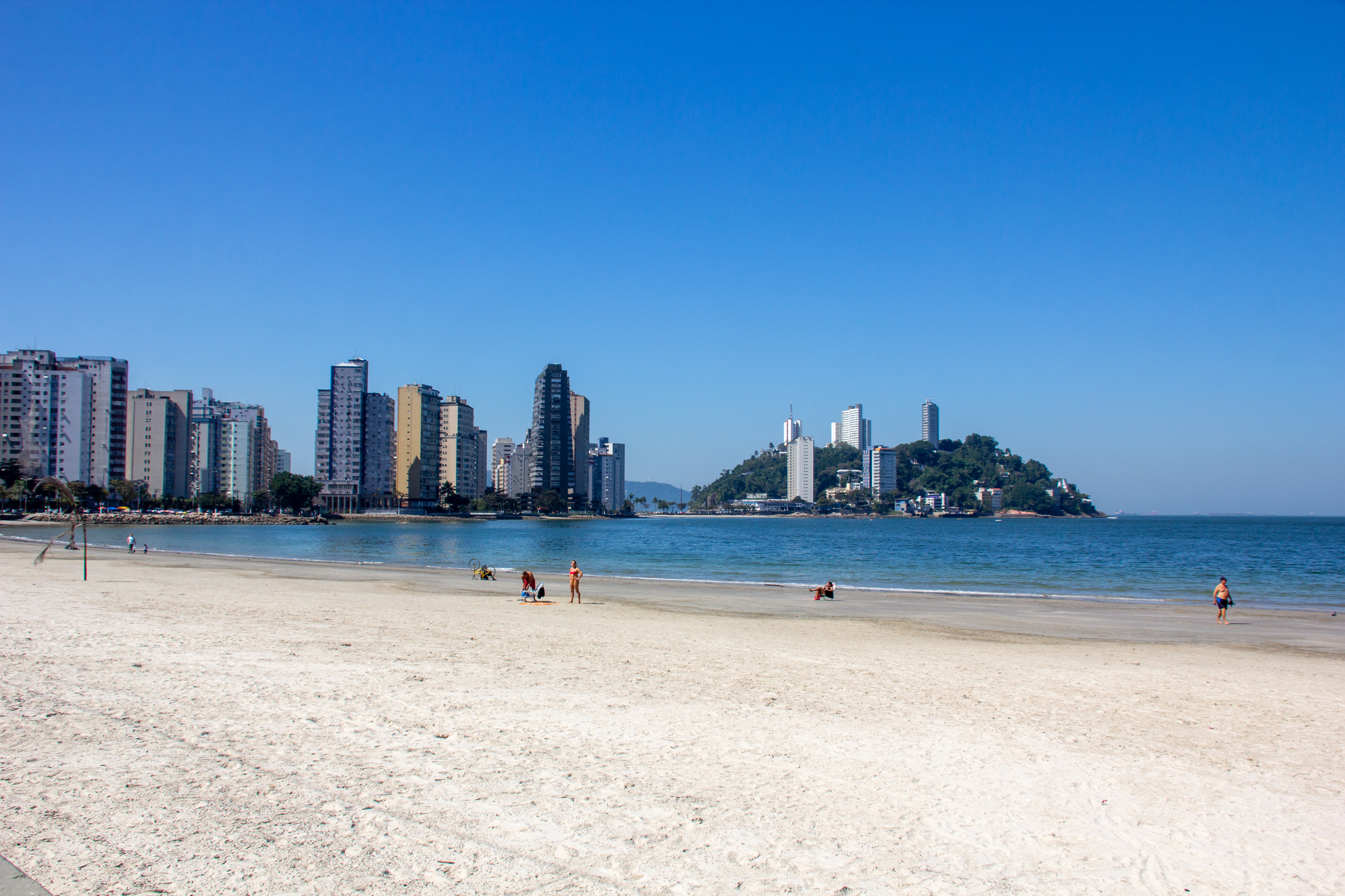 At São Vincente, São Paulo State, Brazil